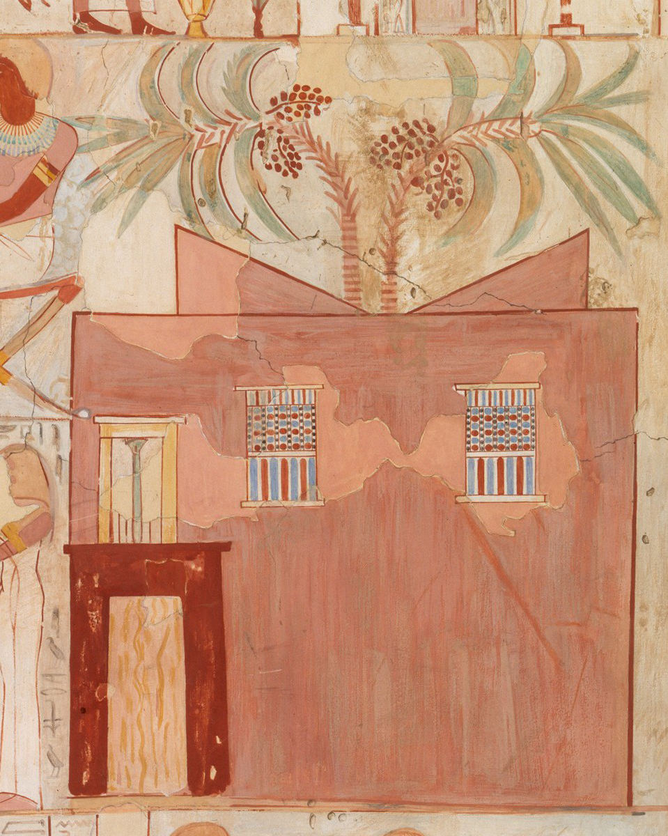 Facsimile, Nebamun (TT 90), estate activities